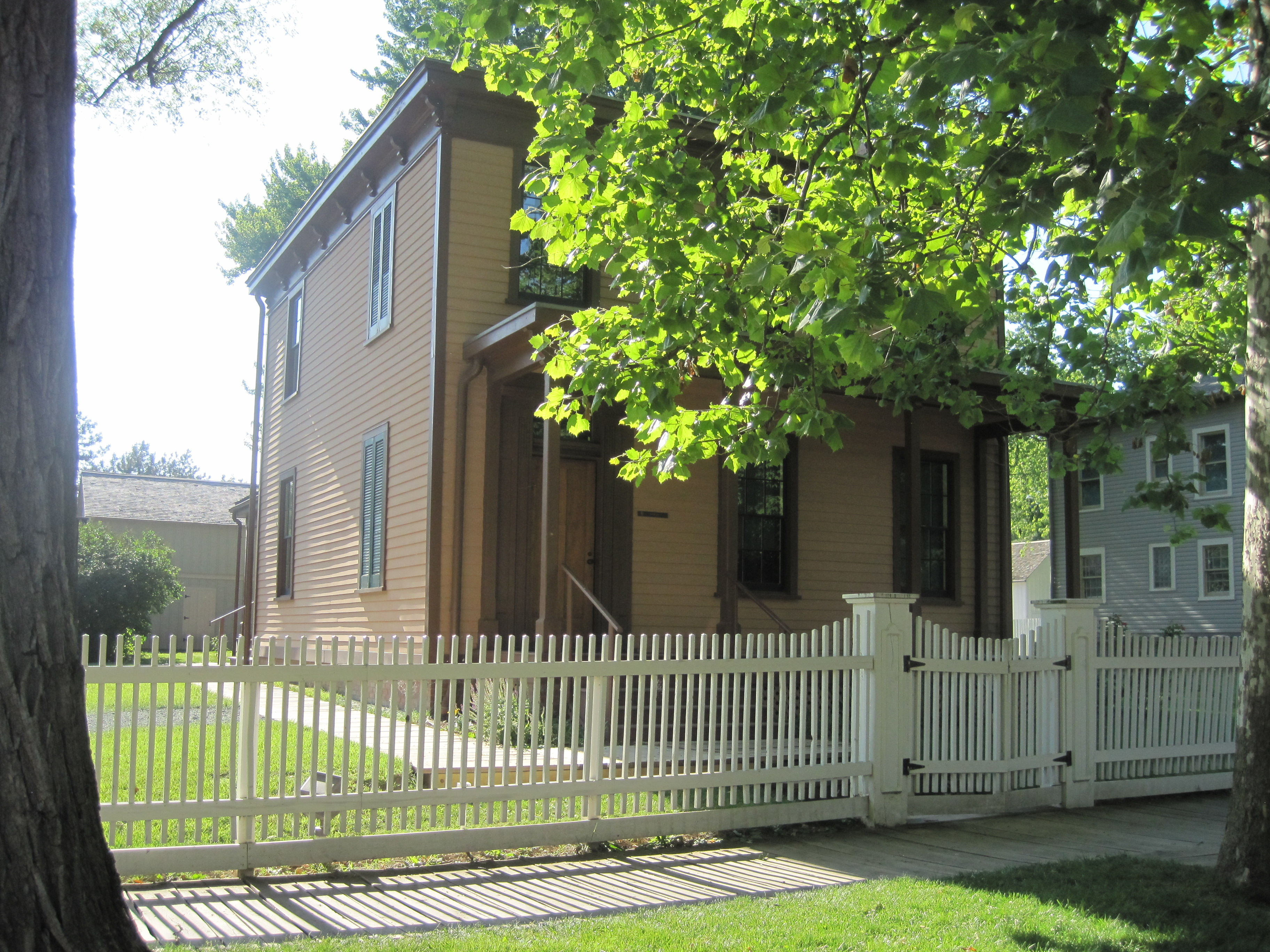 The DuBois House at the Lincoln Home National Historic Site (1859). Jesse K. DuBois was the Illinois State Auditor, and one of Lincoln's allies. DeBois named one of his sons after Lincoln.